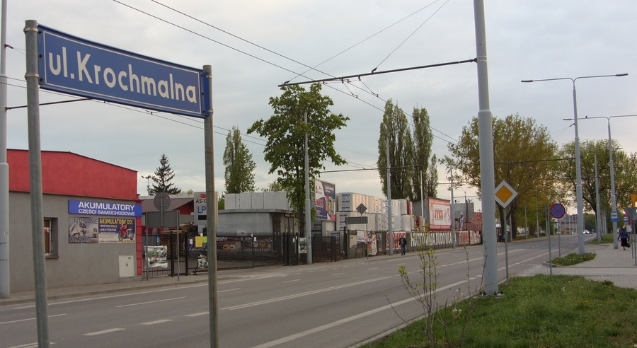 Krochmalna Street 6 in Lublin. Place of German transit camps in Lublin during World War II and German occupation of Poland in 1939-1945.